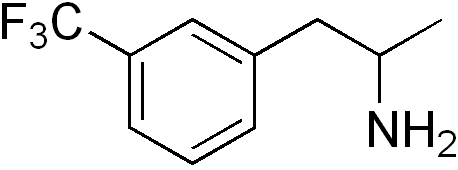 chemical structure of Norfenfluramine